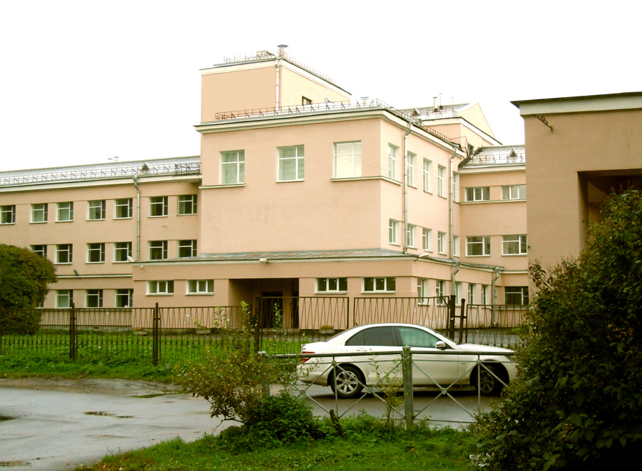 Profilaktory of Nevsky district. Saint Petersburg, Russia.